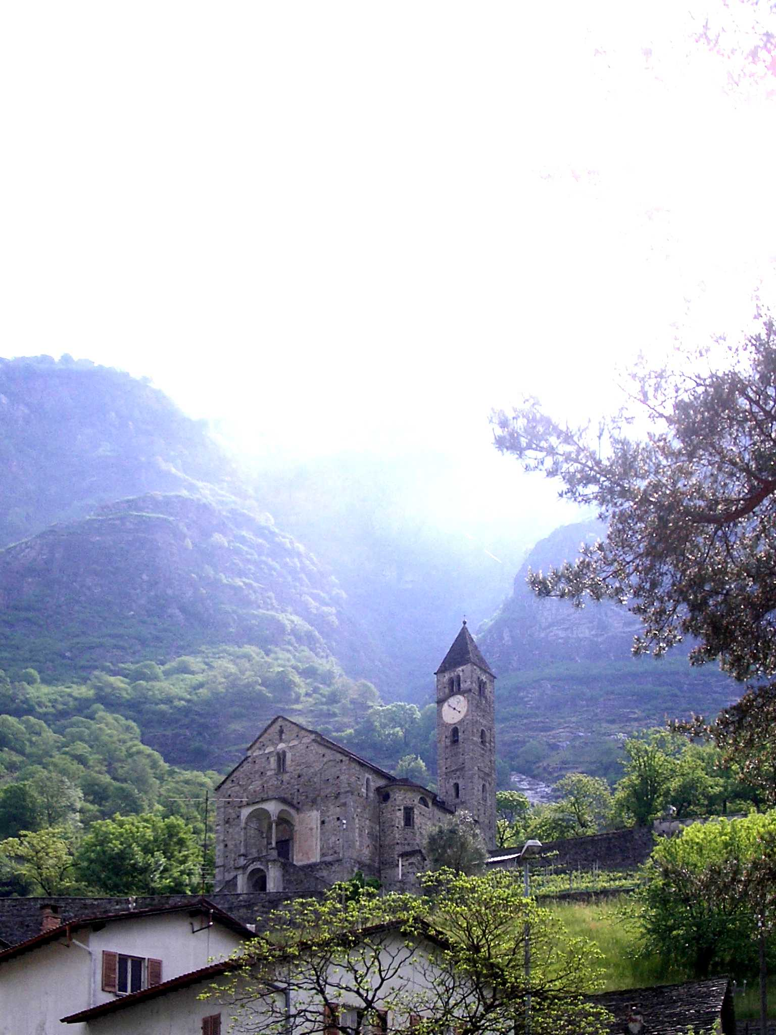 Biasca, St. Peter and Paul church”, facade, XII century